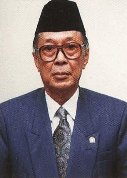 Official portrait of Wahono as the speaker of the People's Representative Council in 1992.